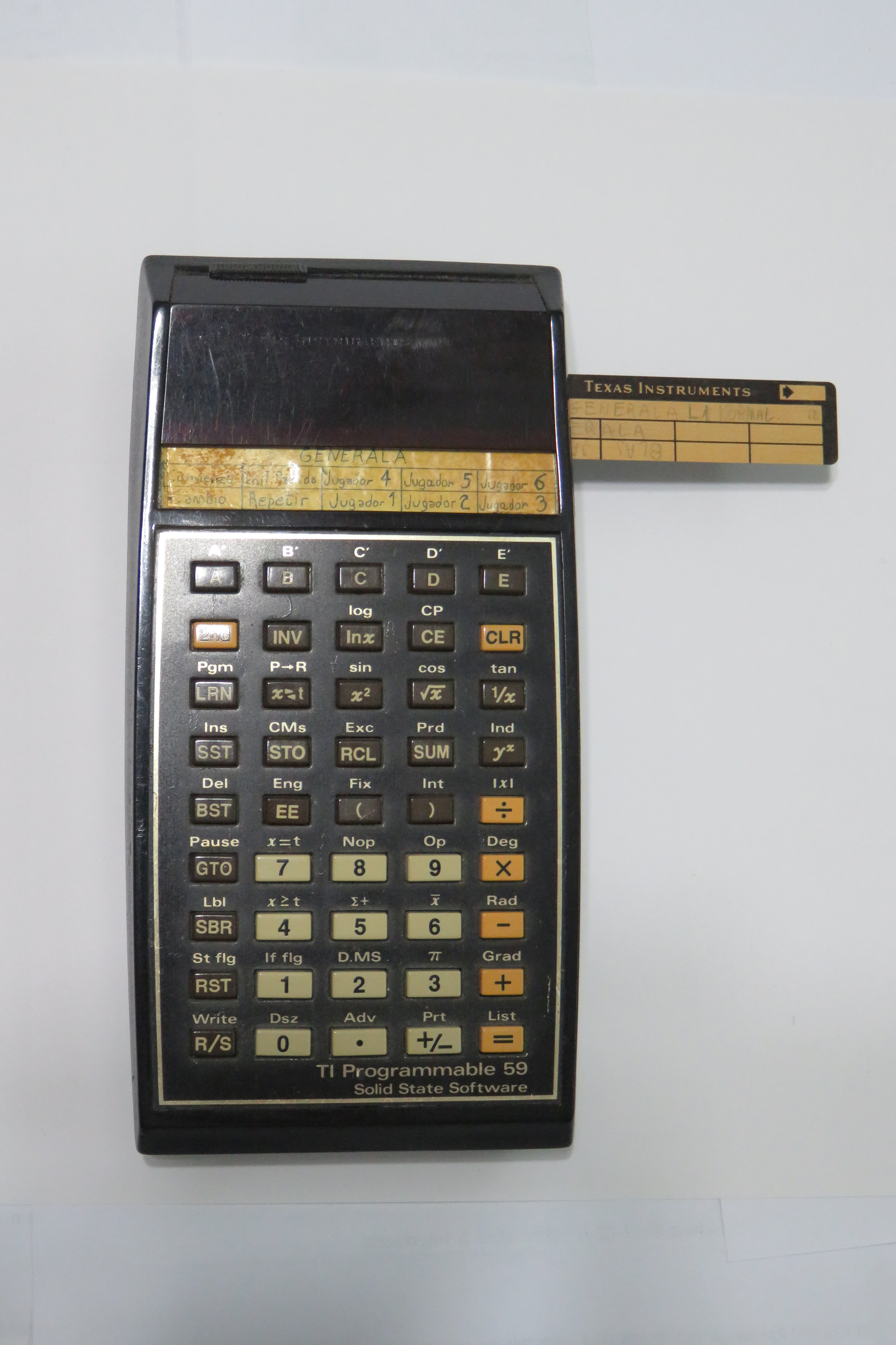 TI-59 Texas Instruments Programmable Calculator with one magnetic card with the dice game "La Generala".